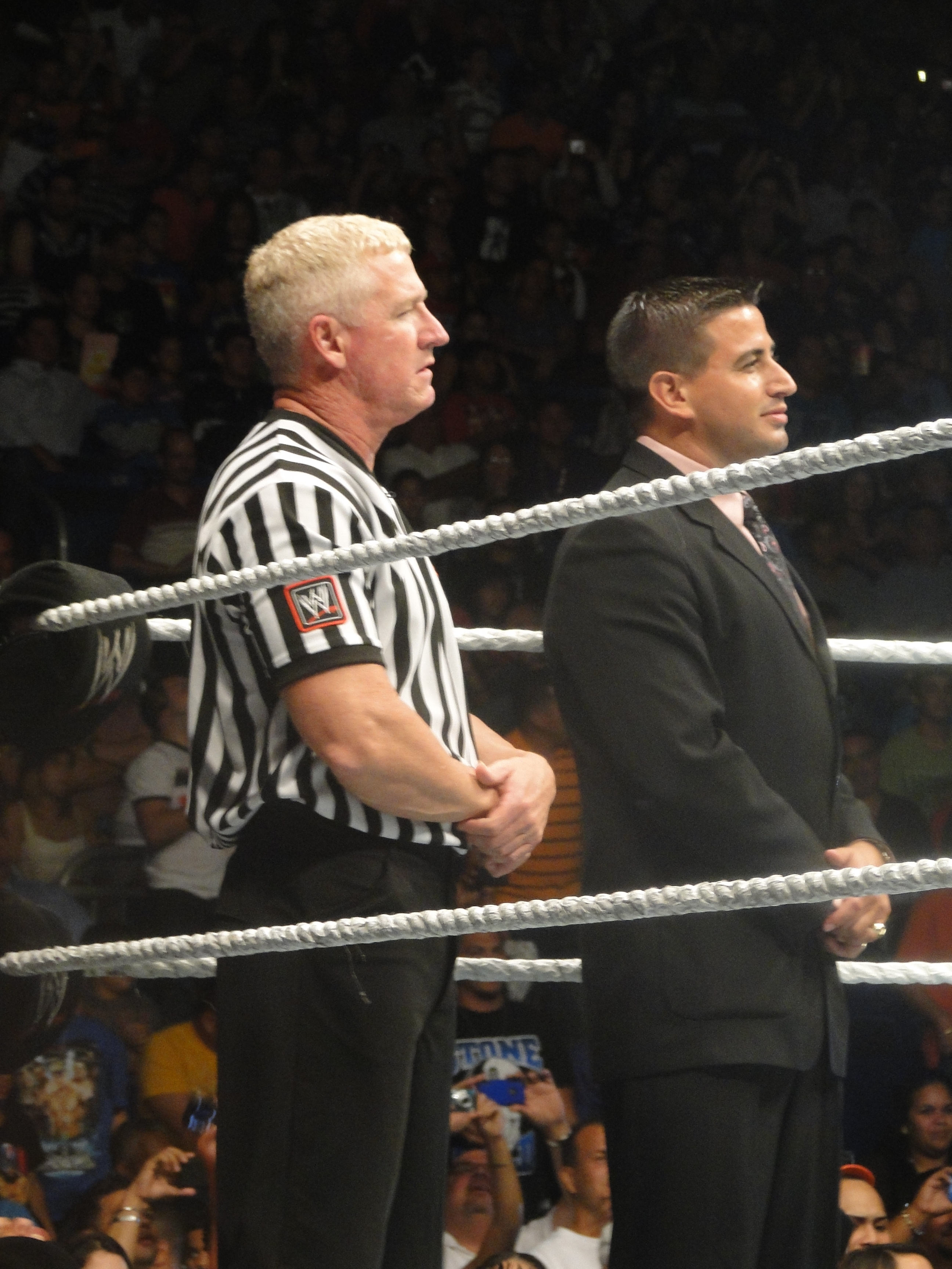 Waiting for Alberto Del Rio to hurry to the ring